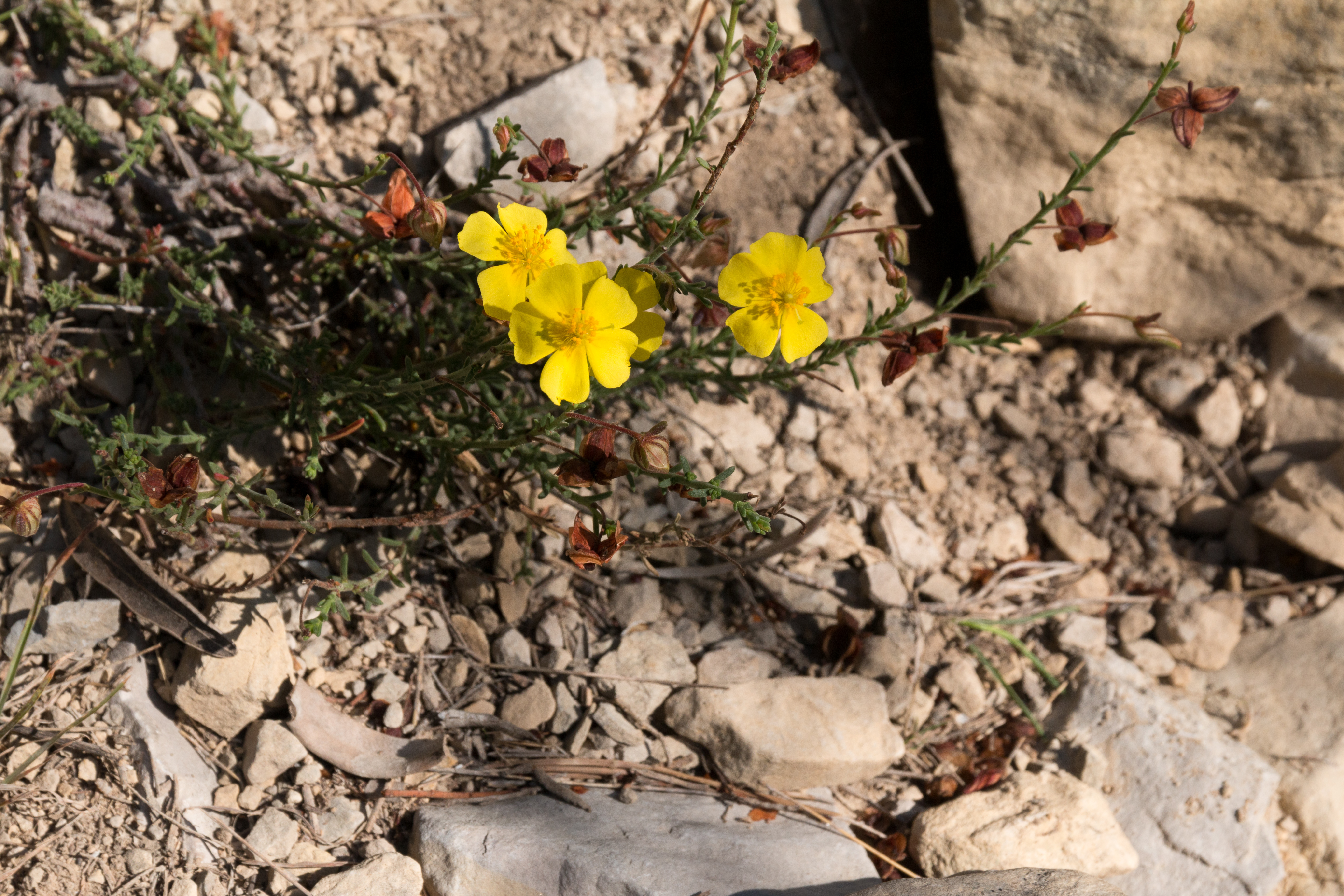 Flower stem of Fumana procumbens